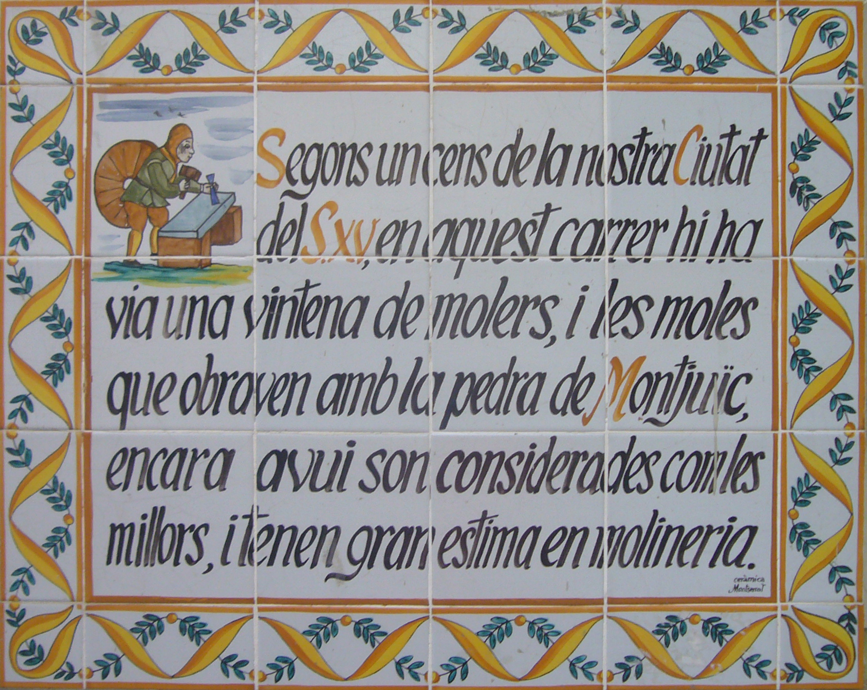 Street of the Millers, in Barcelona - Ceramic plate informing that there were 20 millers in this street in the 15th century in tile: Segons un cens de la nostra Ciutat del Sxv, en aquest carrer hi havia una vintena de molers, i les moles que obraven amb la pedra de Montjuïc, encara avui son considerades com les millors, i tenen gran estima en molineria.